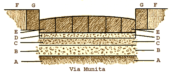 Section of a Roman street of Pompeii